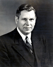 Burr Harrison, US Representative from Virginia